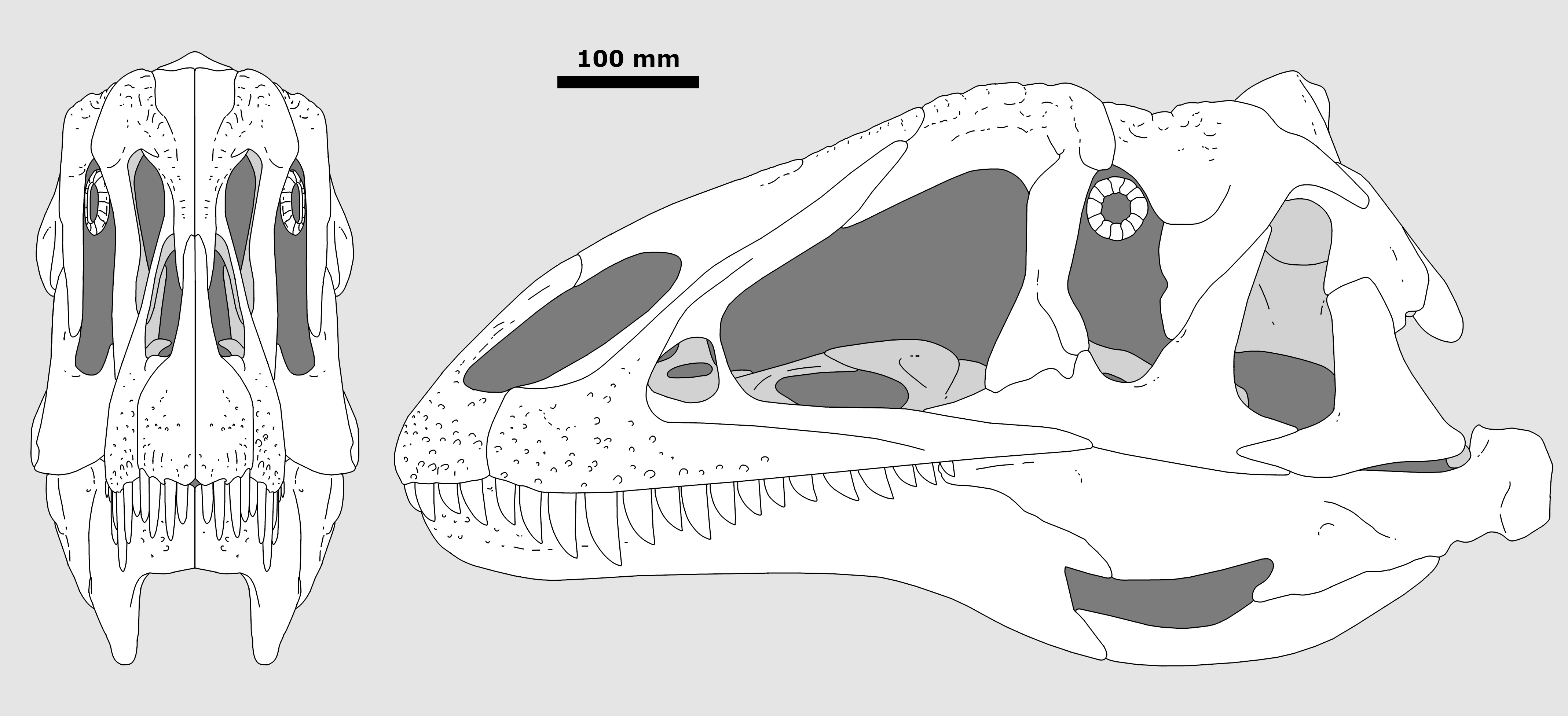 Neovenator skull reconstruction, based on other basal Carcharodontosaurids (Concavenator, Acrocanthosaurus) as well as Allosaurus. Material figured in "the osteology of Neovenator salerii", as well as 3D fossil scanned databases.